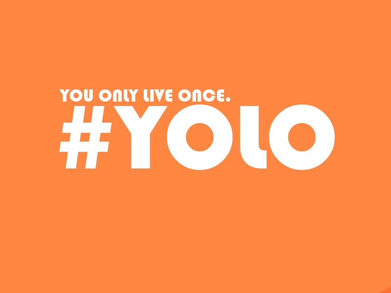 A design for the acronym YOLO, with a hashtag and "YOU ONLY LIVE ONCE." at the top